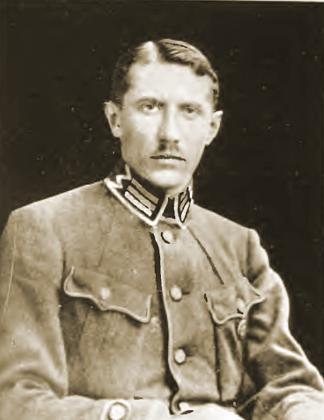 Yevhen Konovalets (14 June 1891 – 23 May 1938) – a military commander of the Sich Riflemen Corps in UNR army (1918-1919) . Later political leader of the Ukrainian nationalist movement. He is best known as the leader of the Organization of Ukrainian Nationalists between 1929 and 1938. Here in the uniform of Sich Riflemen Corps (1918)